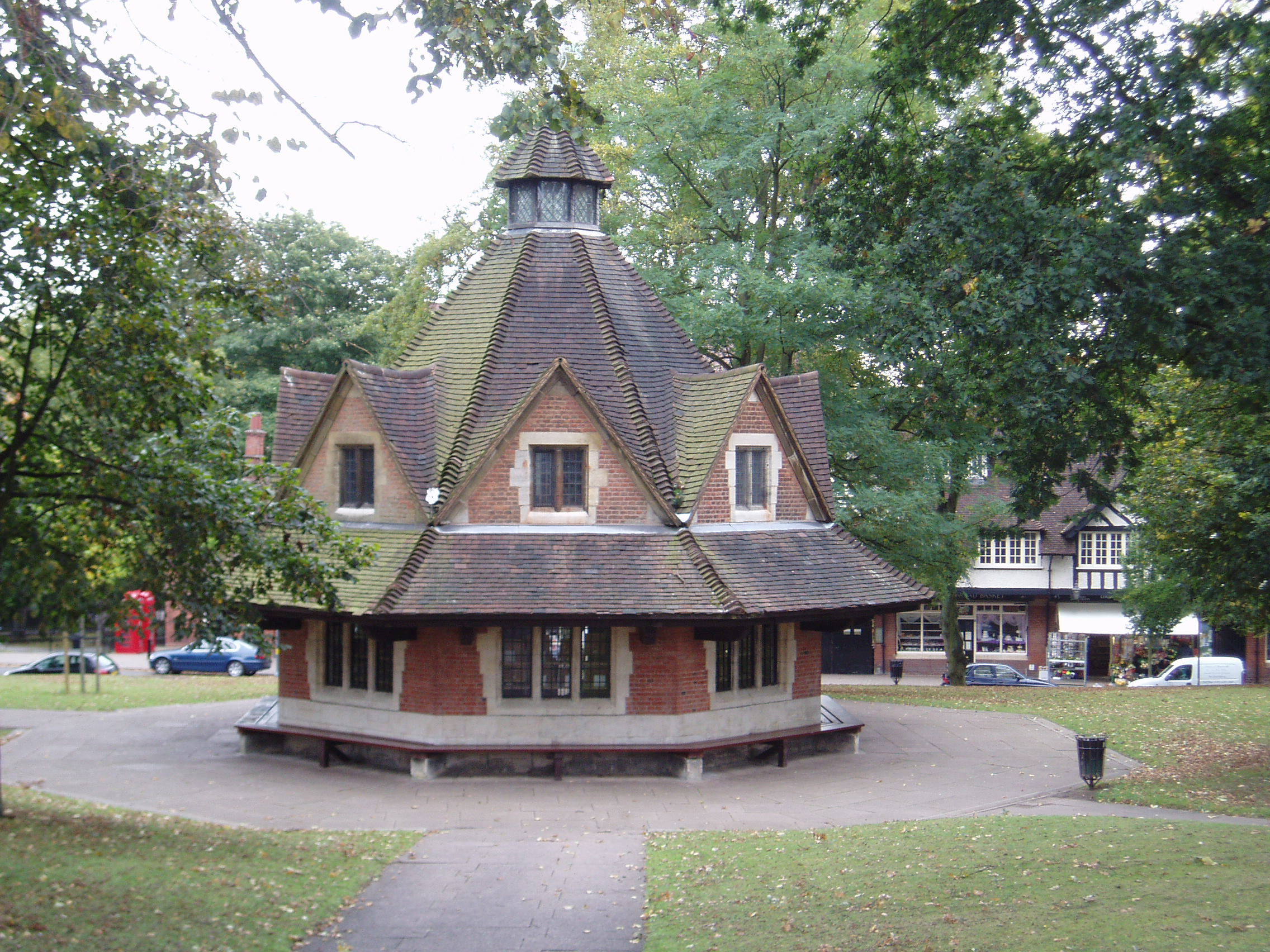 The Grade II listed Rest House (1914), Bournville Village Green. Birmingham, England.